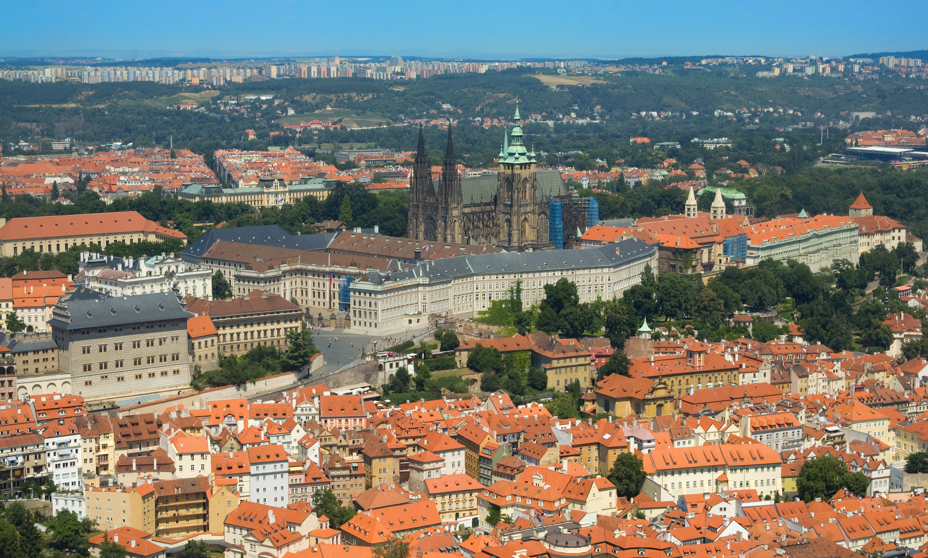 Prague Castle in Prague, Czech Republic.